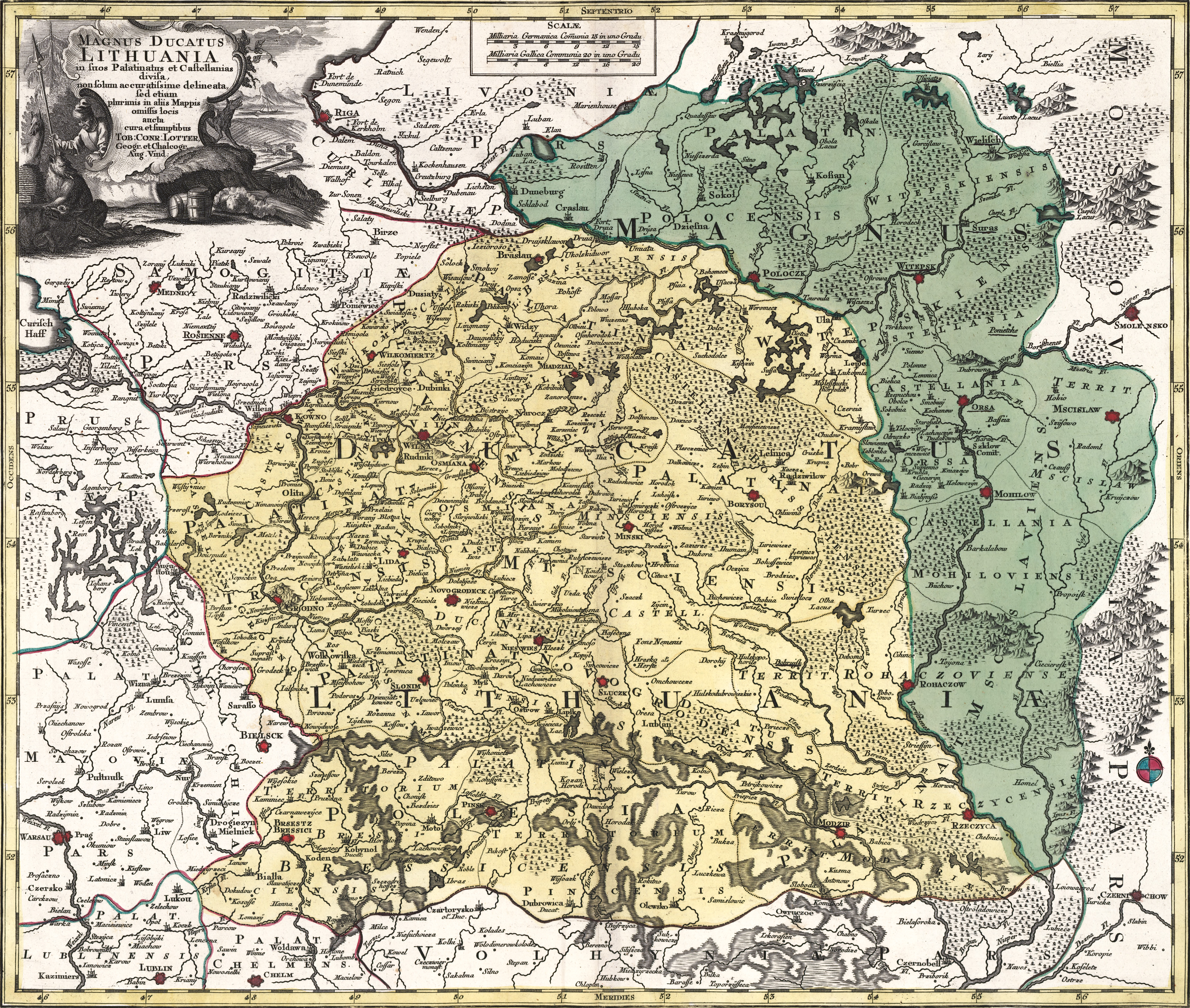 Magnus ducatus Lithuania, Tobias Lotter, 1780